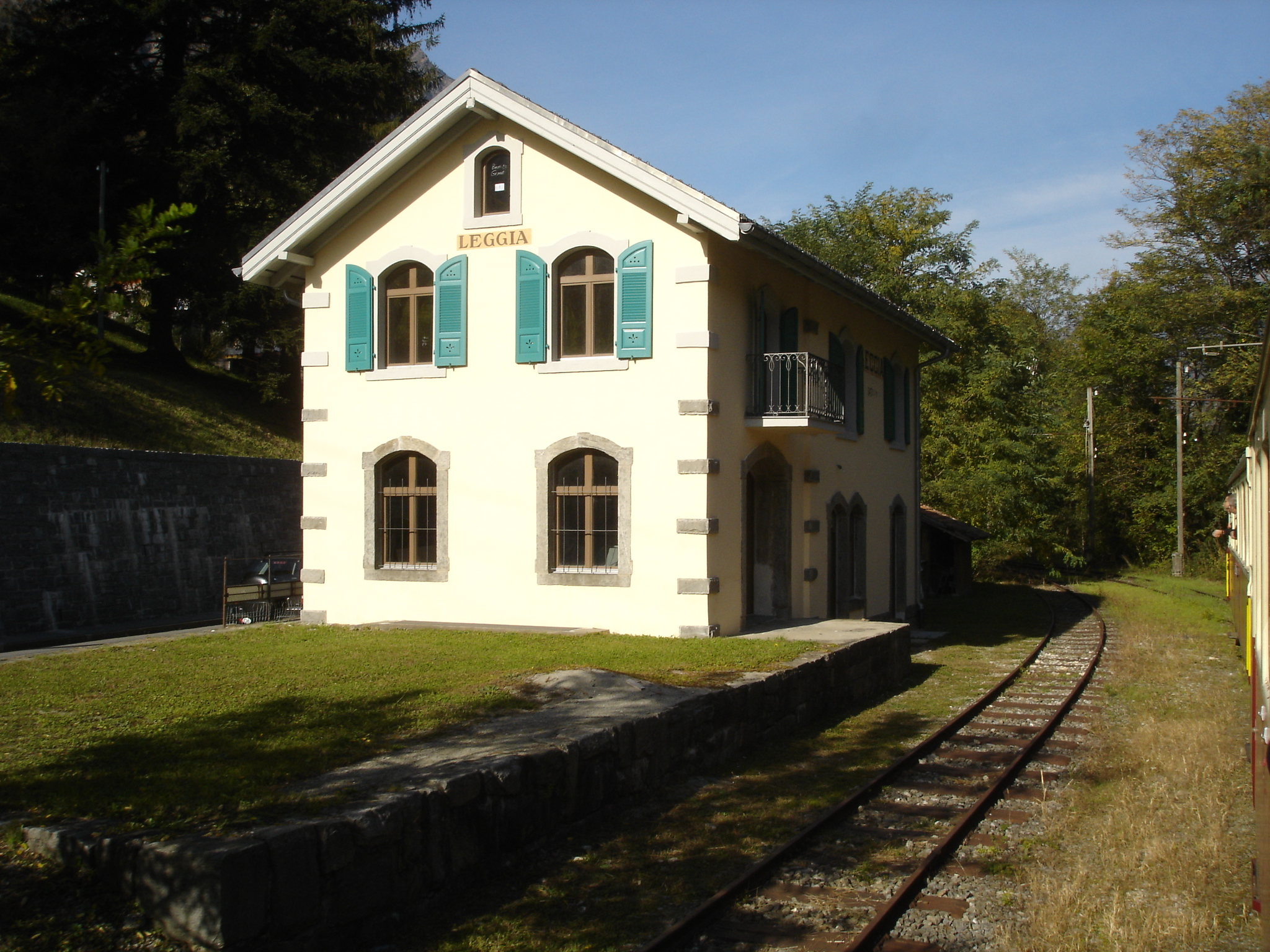 Leggia train station.